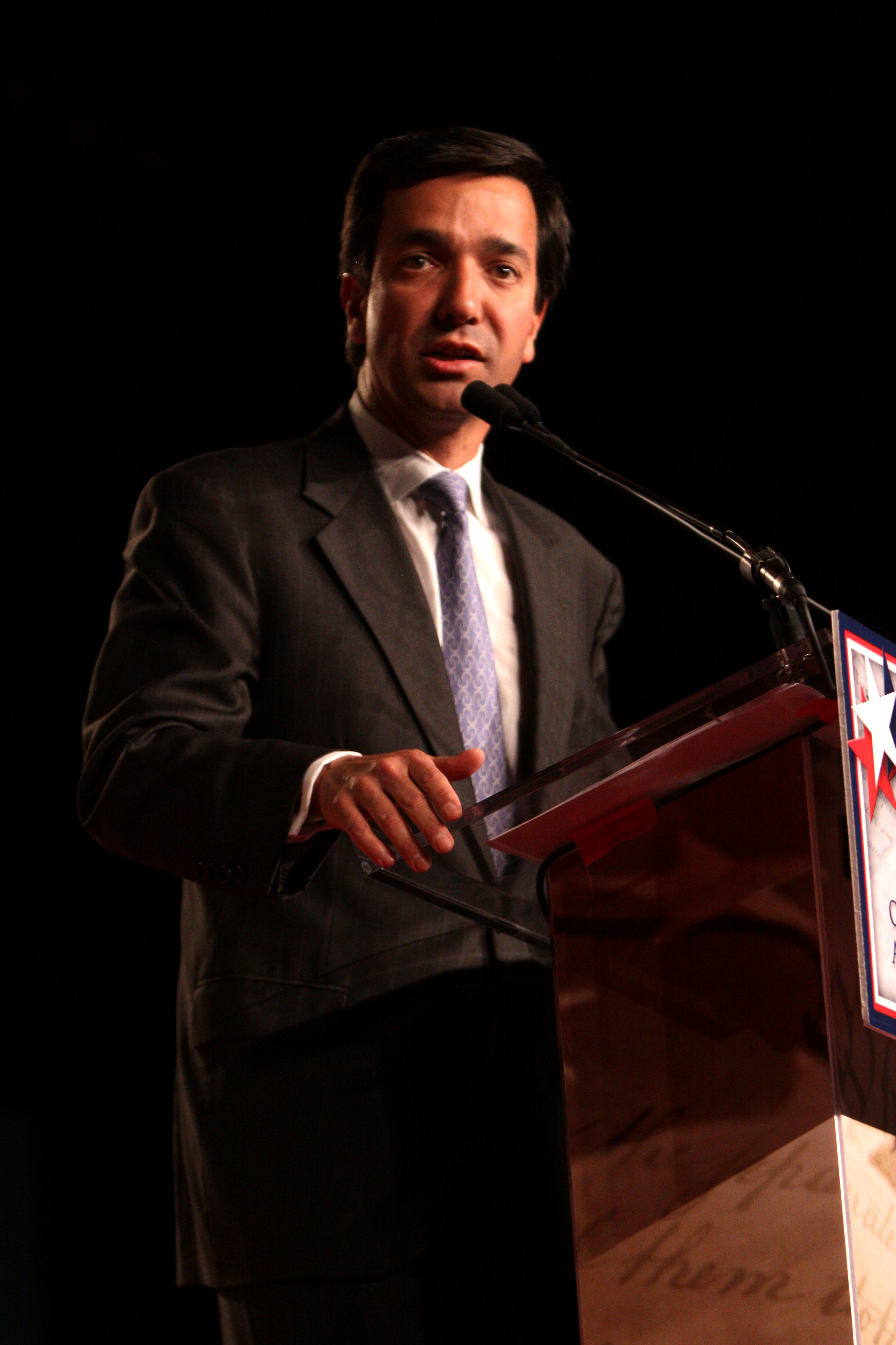 Governor Luis Fortuño speaking at CPAC FL in Orlando, Florida.